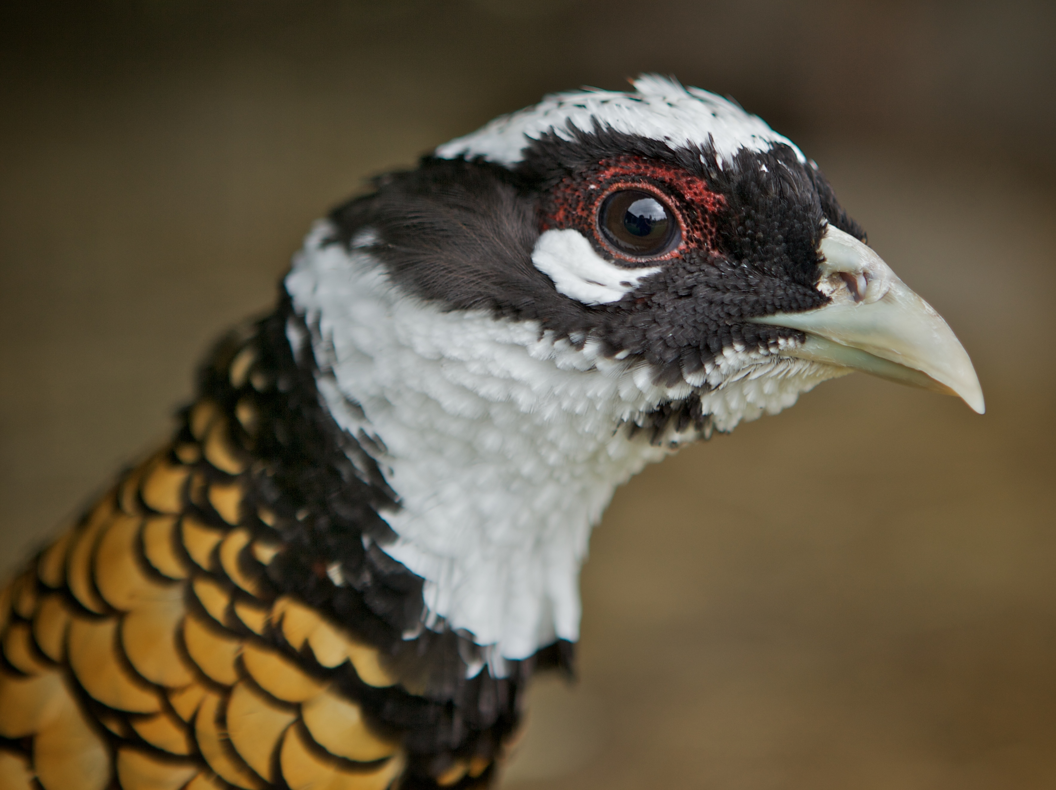 A male Reeves's Pheasant at a small zoo in Norway.